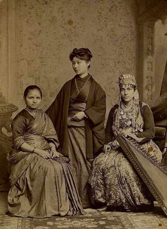 Foreign female medical students At Women’s Medical College of Pennsylvania wearing national costumes, l.t.r. Anandibai Joshee from India Kei Okami from Japan Sabat Islambooly from Syria